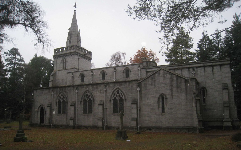 St. Thomas' Scottish Episcopal Church, Aboyne